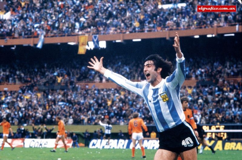 Mario Kempes celebrating one of his goals v. Netherlands at the World Cup final.